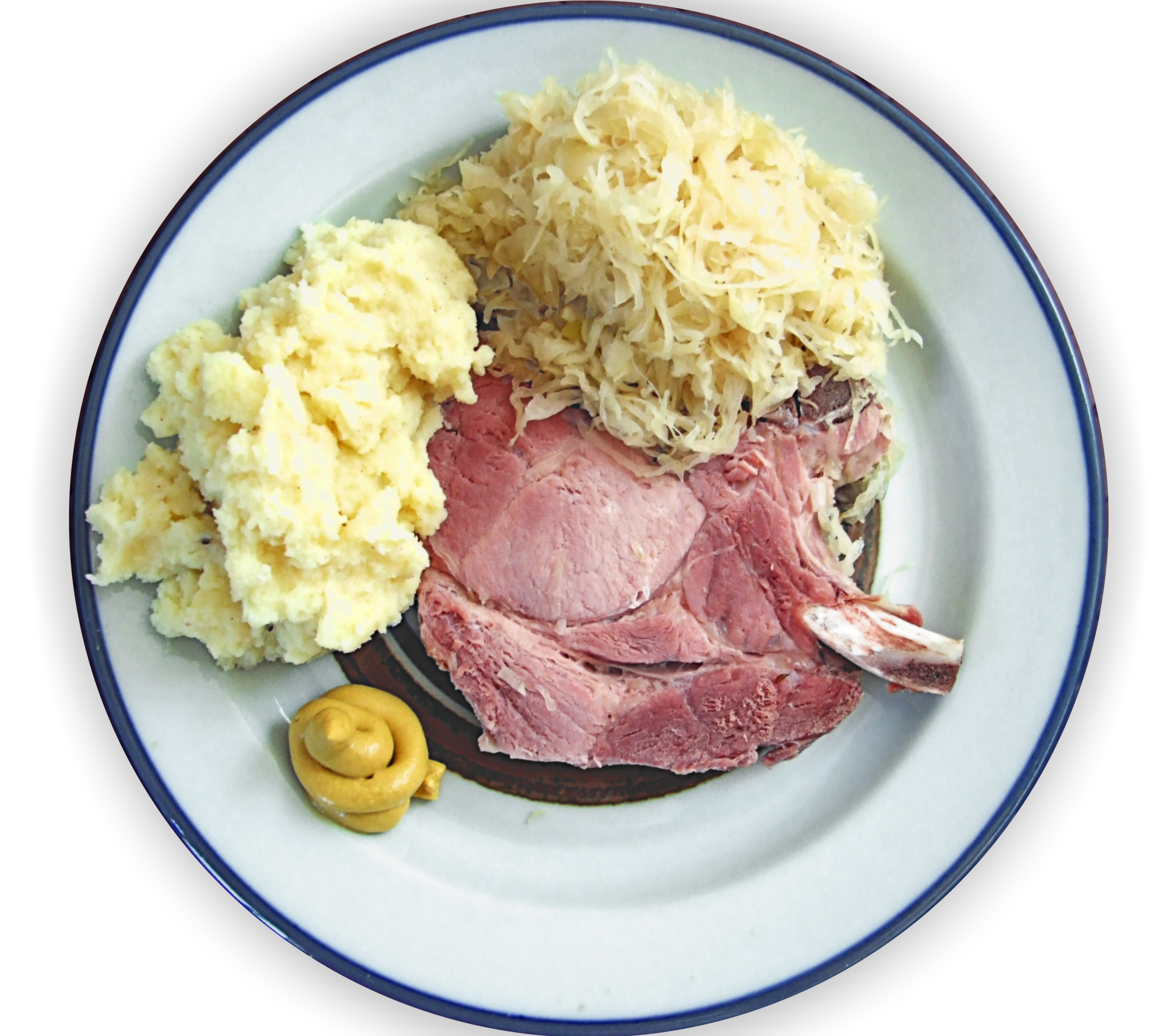 Frankfurter Rippchen mit Kraut as menue in Frankfurt am Main (menue: cured pork cutlet with sauerkraut, mashed potato and mustard)